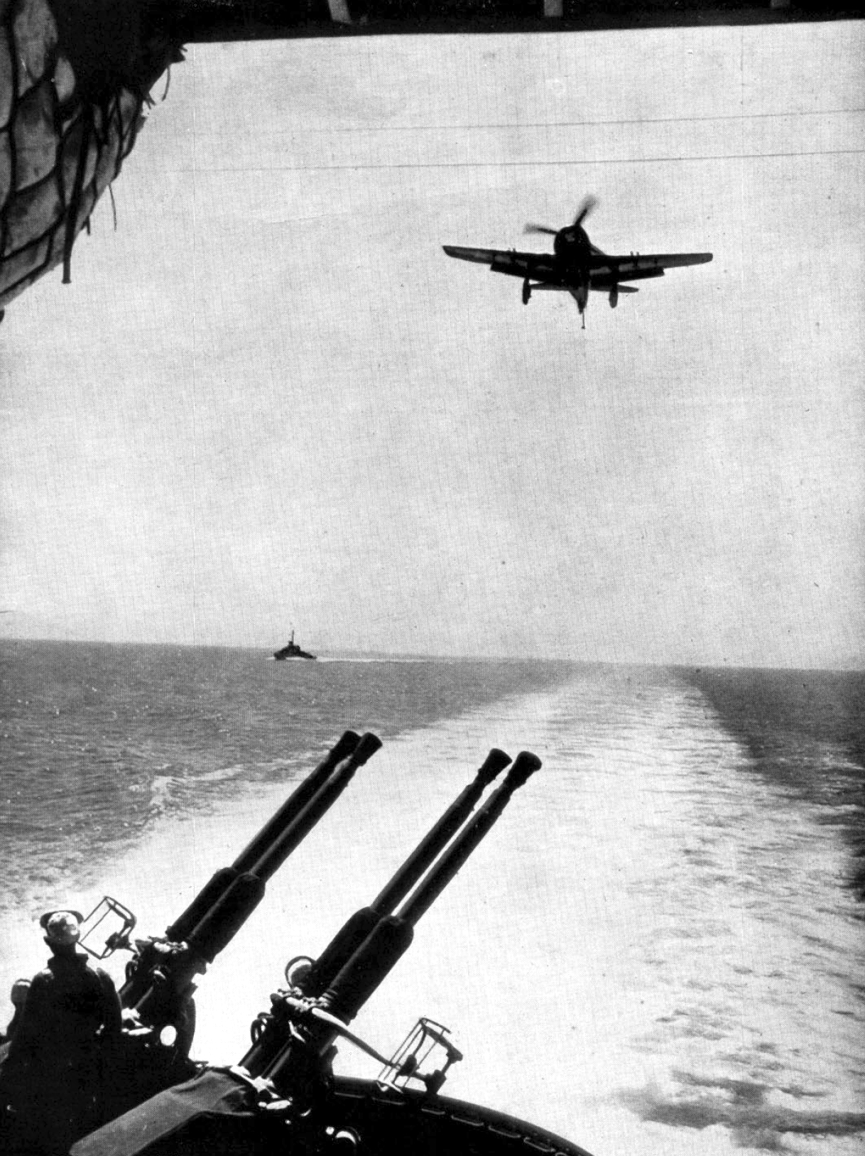 A U.S. Navy Grumman F8F-1B Bearcat of Fighter Squadron VF-8A "Bearcats" approaching the aircraft carrier USS Leyte (CV-32). VF-8A was assigned to Carrier Air Group 7 (CVG-7) aboard the Leyte for a deployment to the Mediterranean Sea from 3 April to 9 June 1947.